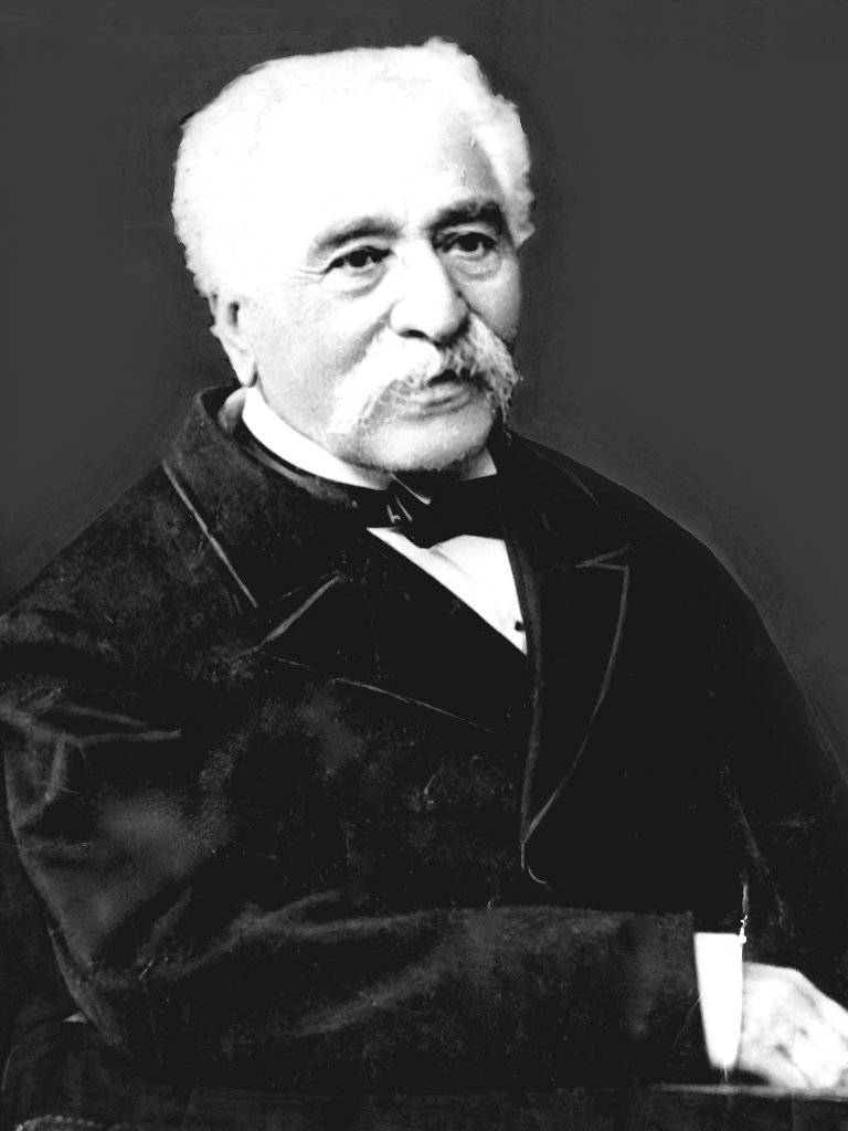 Armenian writer Gabriel Sundukyan